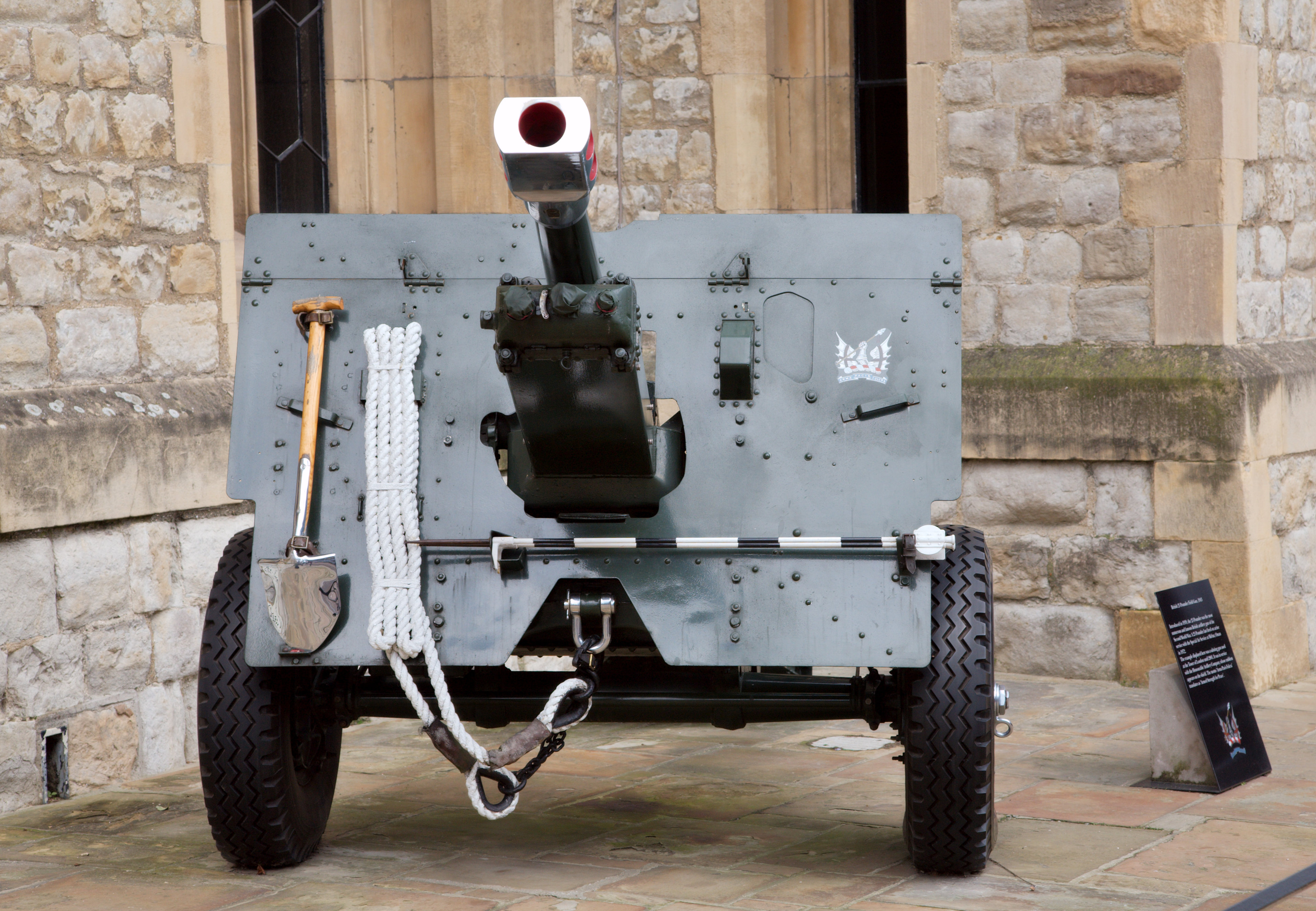 A British 25 pounder from 1943 at the tower of London. It served as a saluting gun for the Honourable Artillery Company until 2001.